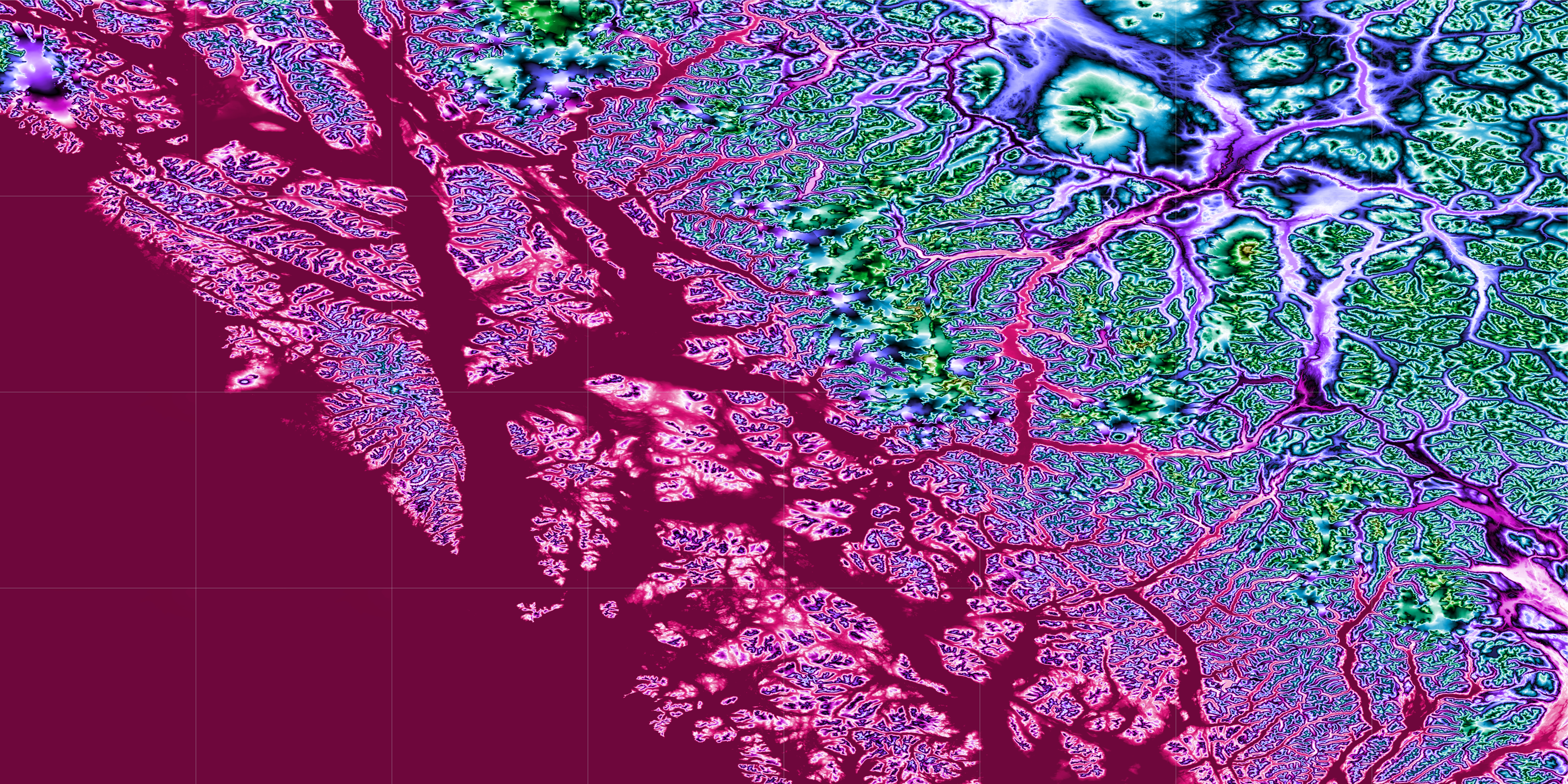 This topographic map shows the Alexander Archipelago in southeastern Alaska. Also includes some of northwestern British Columbia. The map extends from 55 to 59 degrees north latitude and from 129 to 137 degrees west longitude. Produced with Map Render 3D from GHz Limited. Then used IrfanView to stitch together multiple maps.